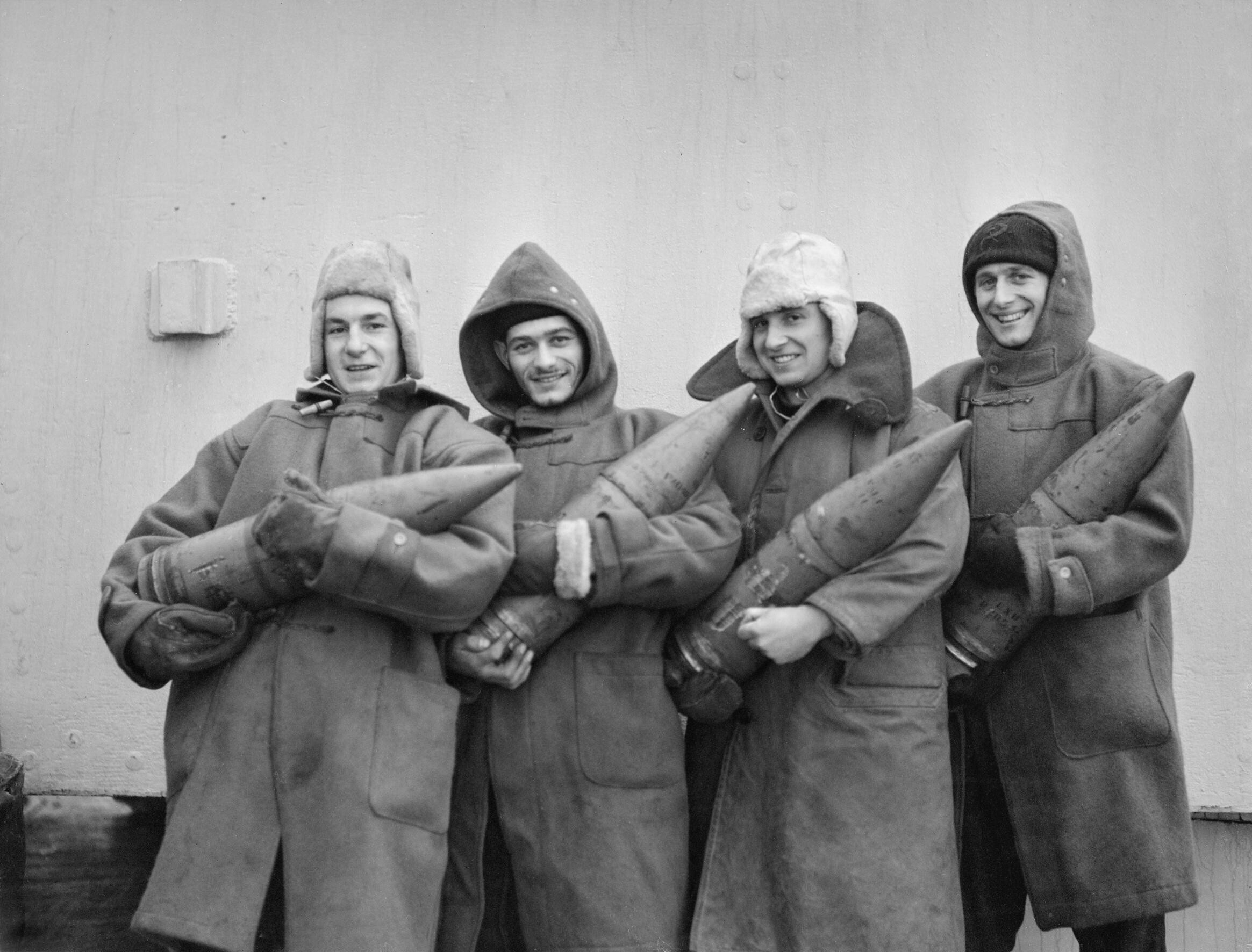 A Warship Which Took Part in the Action Off the North Cape on 31 December 1942. HMS Sheffield, at Greenock, 10 January 1943. Some of the gun's crew of the HMS SHEFFIELD which took part in the battle off the North Cape, 31 December 1942.